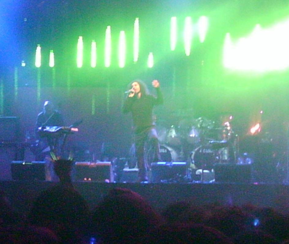 System of a Down at the Download Festival, England, 2005